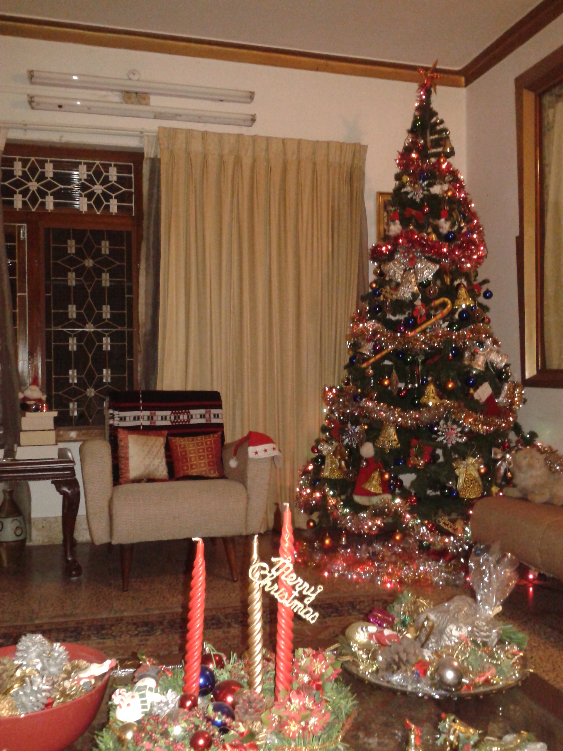 The AD 52 Christians of Kerala, India celebrate Christmas with Christmas Trees as well. The picture shows a decorated Christmas Tree inside a home in remote Wayanad District of Kerala, India. Obviously, the tree and the decorations are artificial except the candles.